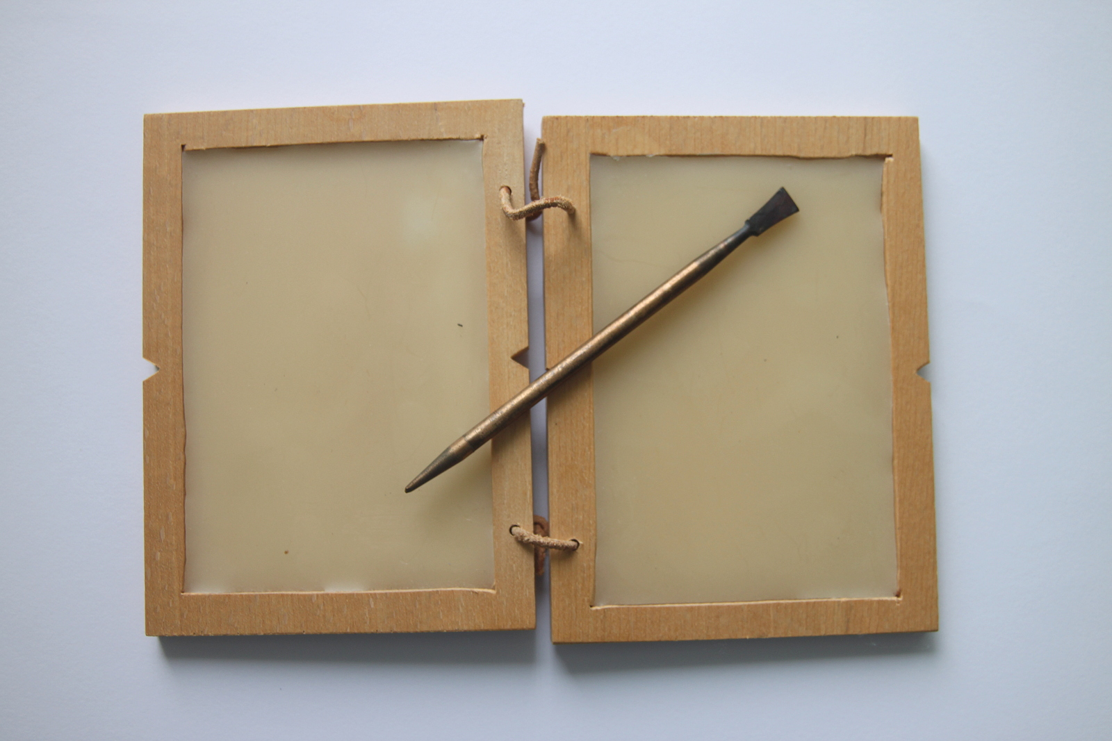 Writting with was one with the stylus and Roman period point wrote the notes with the flat part of the stylus wiped one writing out again.